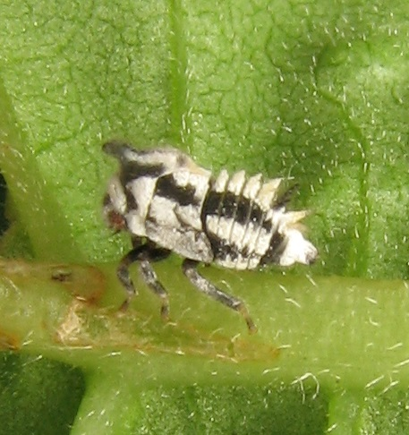 Treehopper Enchenopa undescribed species on juglans. Pennypack Restoration Trust, Montgomery County, Pennsylvania, USA.